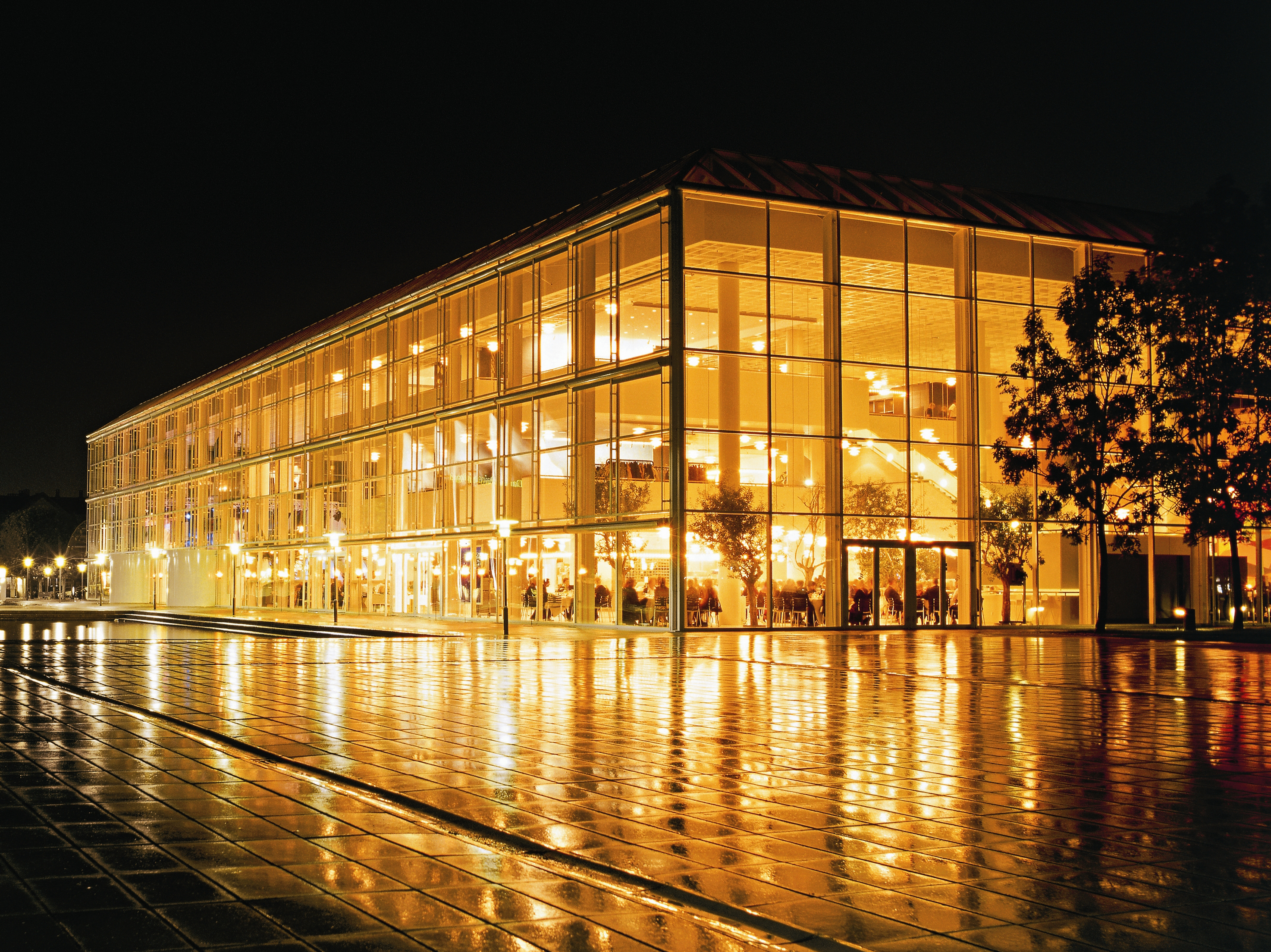 Aarhus musichouse